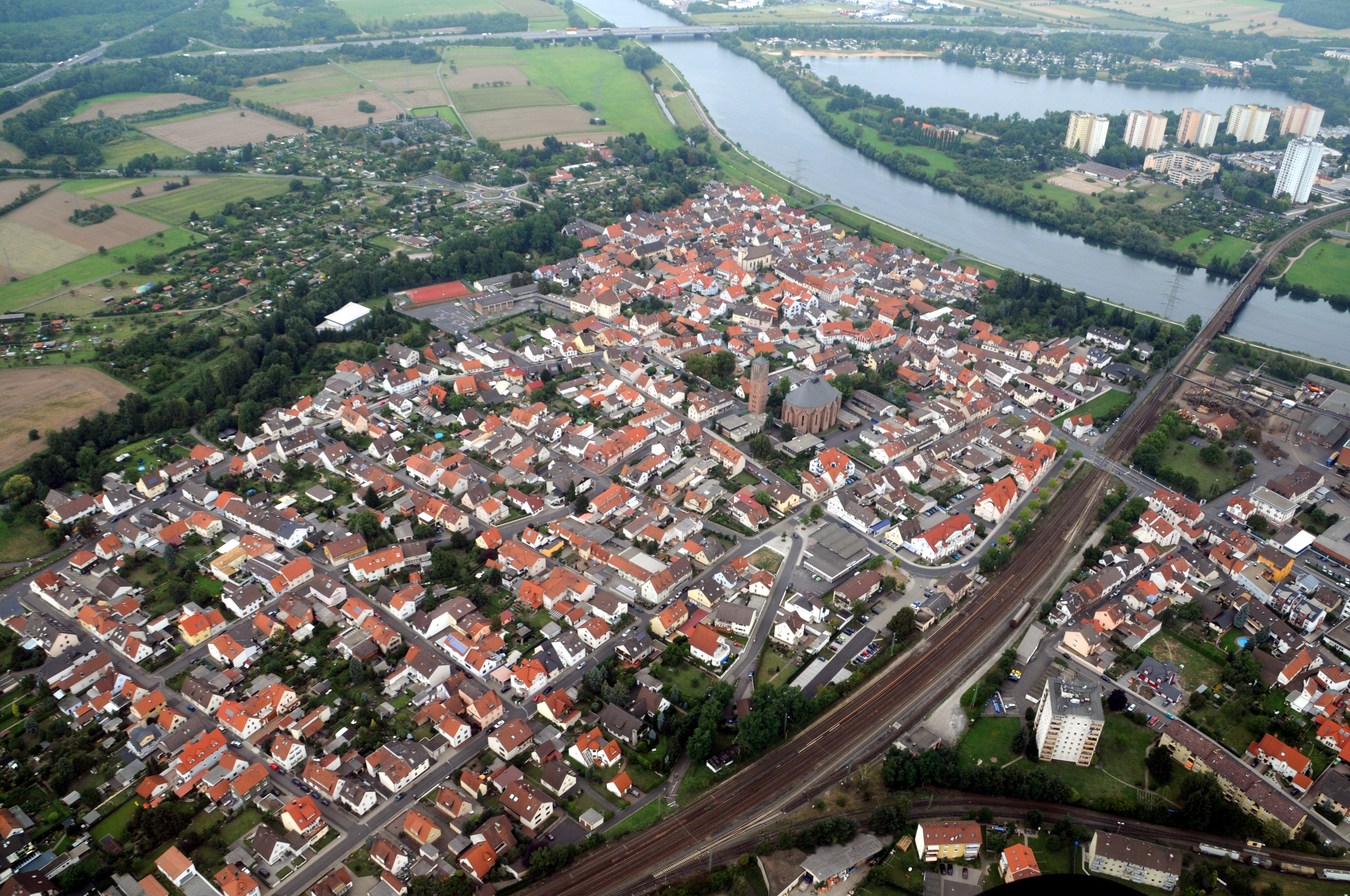 Stockstadt am Main, Bavaria, Germany, aerial photograph